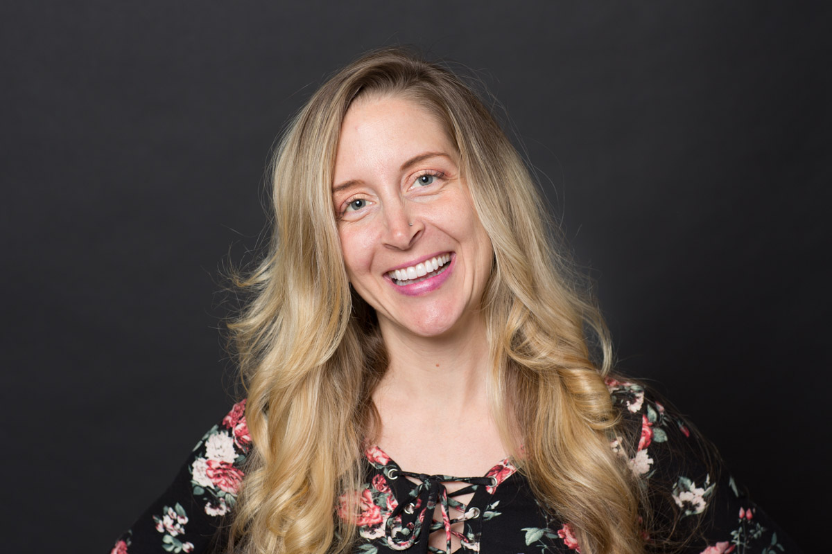 Christine McDannell, US-American entrepreneur